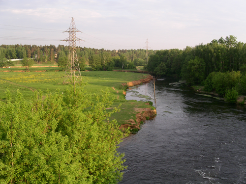 Pehorka river, which flows into the Moscow river, run, for the most of it's part, in Tomilino. Photo by Yuriy V. Lapitskiy (c) 2006 First published in Wikimedia Commons for Wikipedia Technical details: Camera model Minolta DiMAGE F300